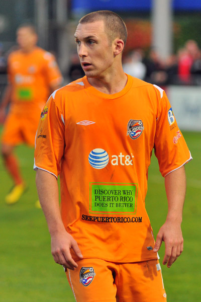 Photo of soccer player, David Foley.